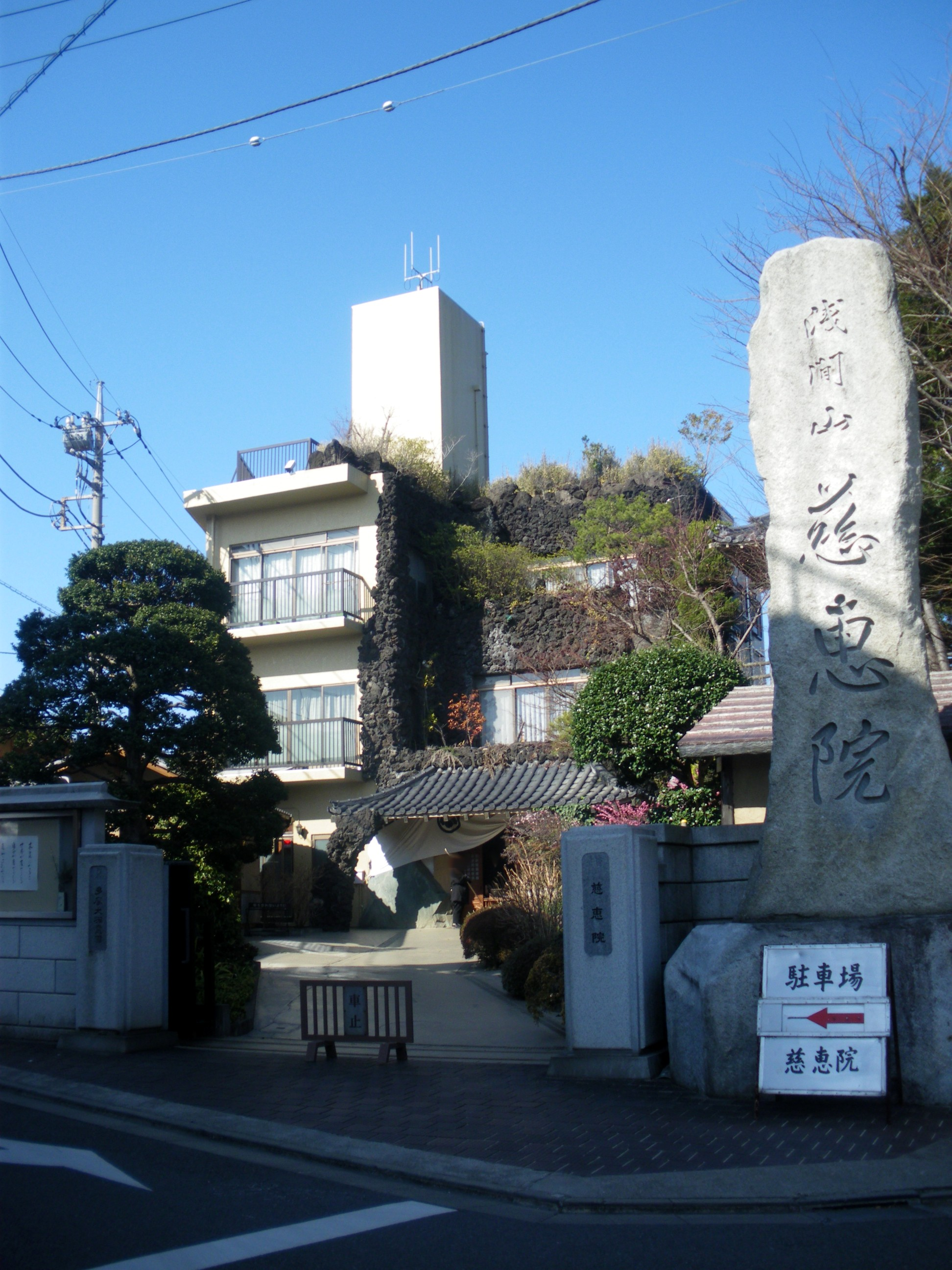 A photo of Jikeiin temple,Fuchu city,Tokyo,Japan.